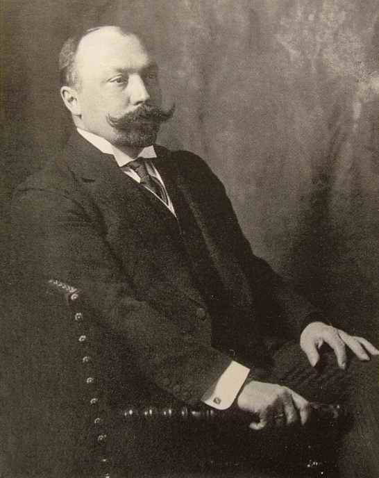 Peter Bark − Piotr Bark (1869-1937) — minister of Imperial Russia.